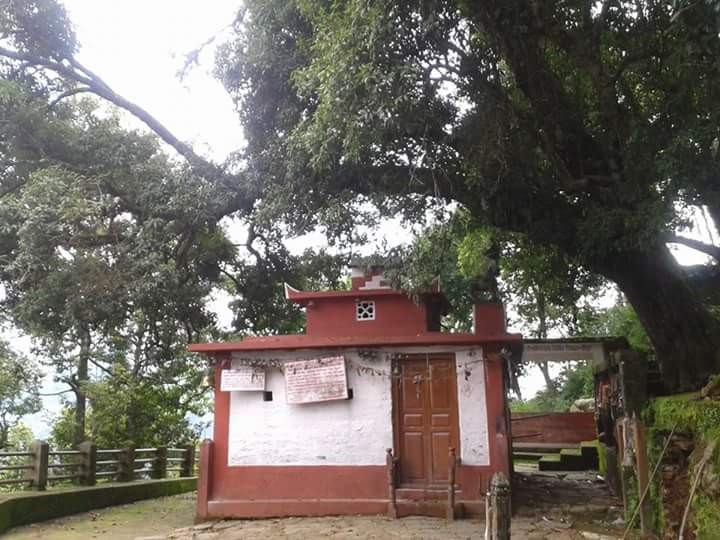 Chandikalika Temple